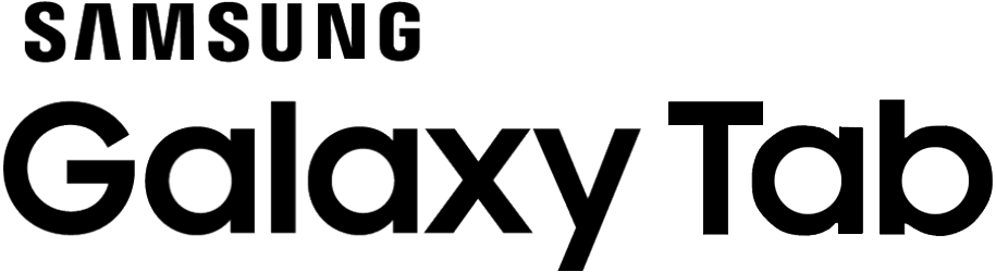 This is the logo for Samsung Galaxy Tab